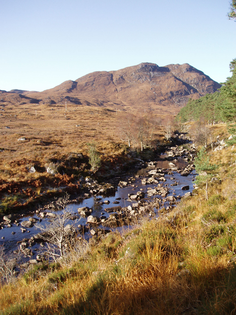 River Grudie With Carn na Beiste beyond.